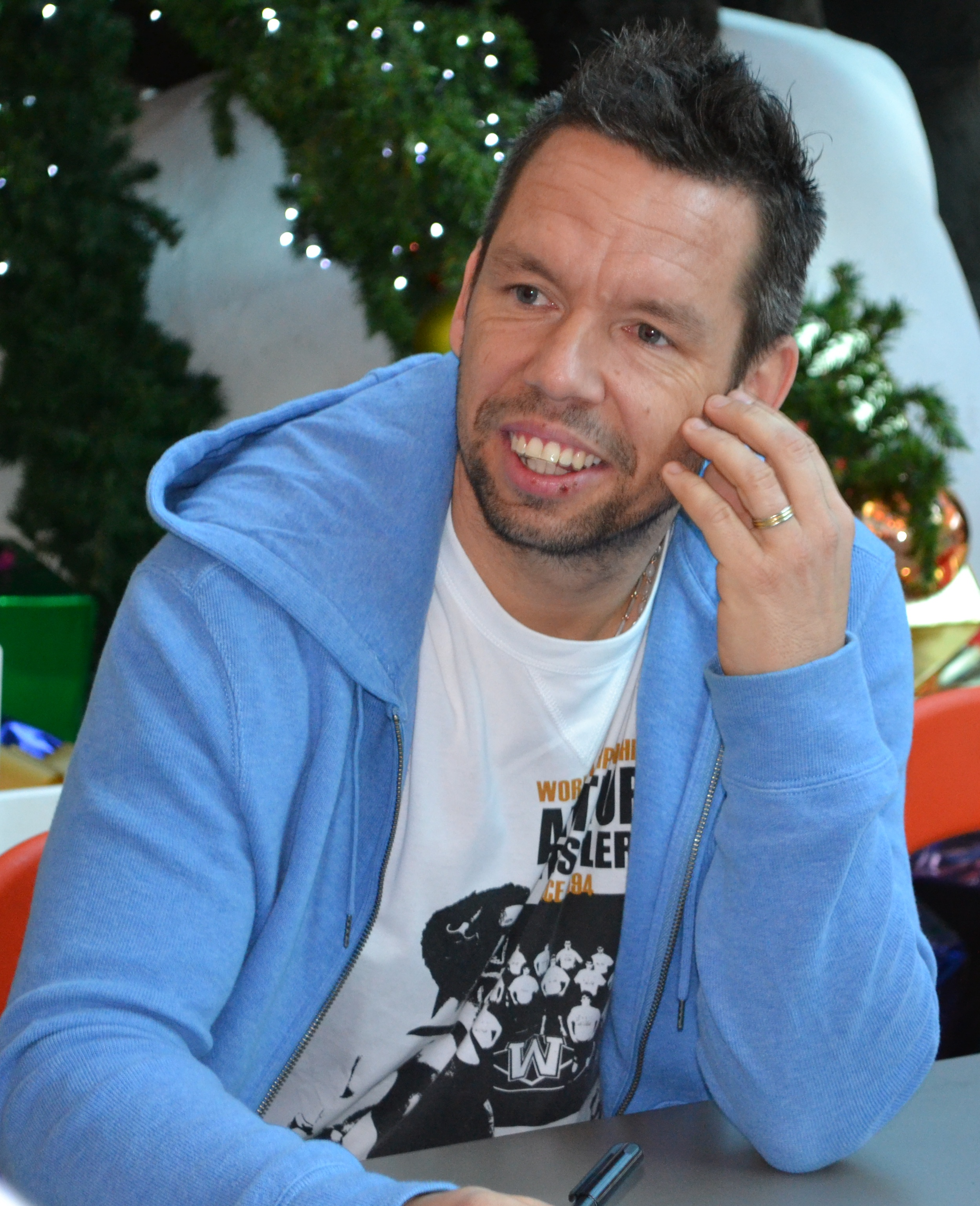 Pavel Horváth, Czech footballer